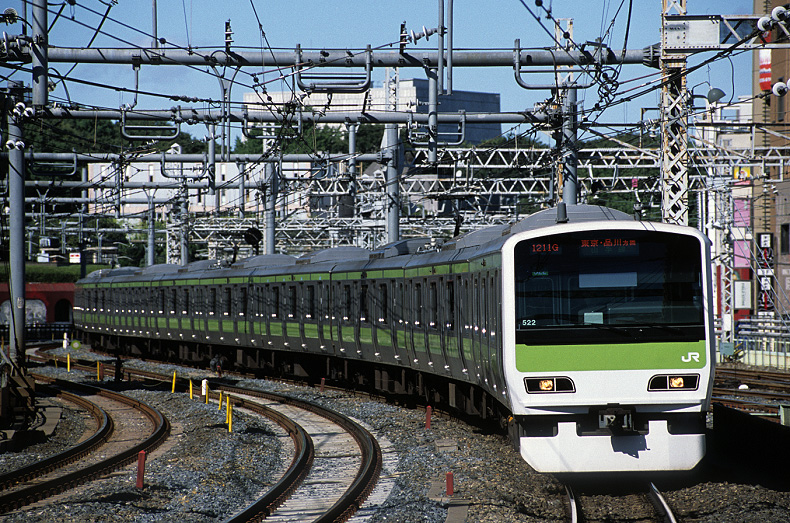 JR East E231-500, serving Yamanote Line (Taken between Okachimachi and Ueno)